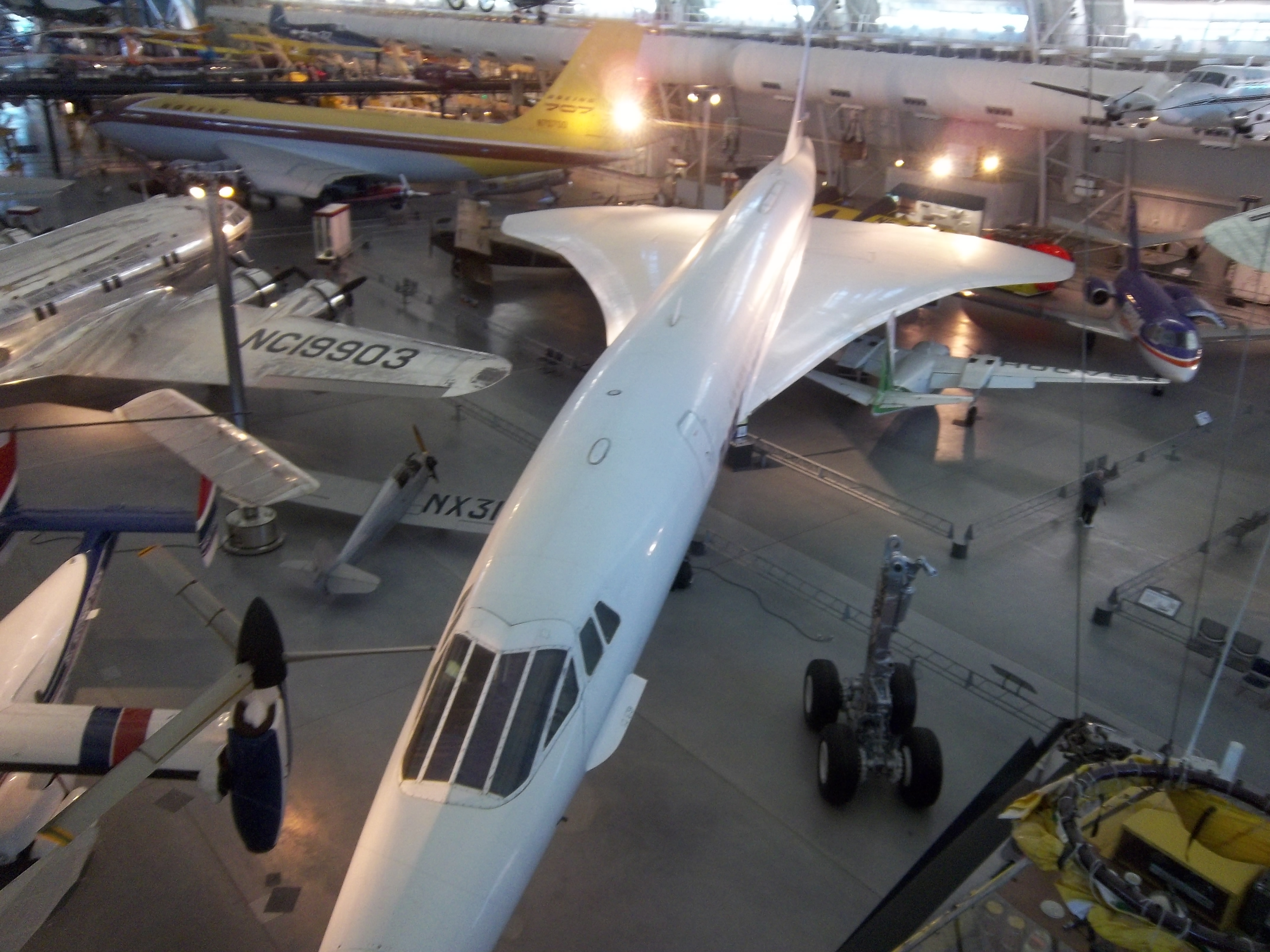 Air France Concorde F-BVFA at the Steven F. Udvar-Hazy Center in Virginia.